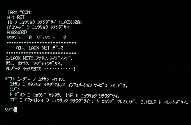 Login screen (1986)